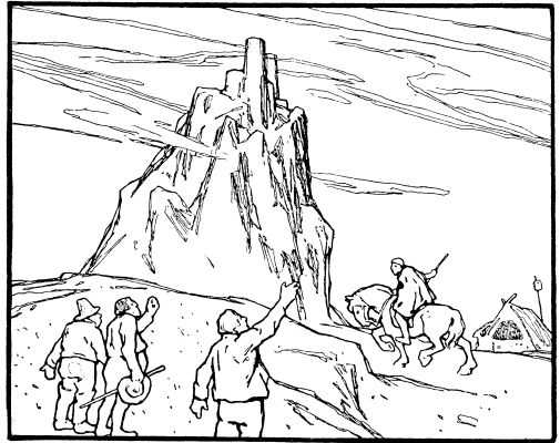 Illustration by Otto Ubbelohde to the fairy tale The Raven